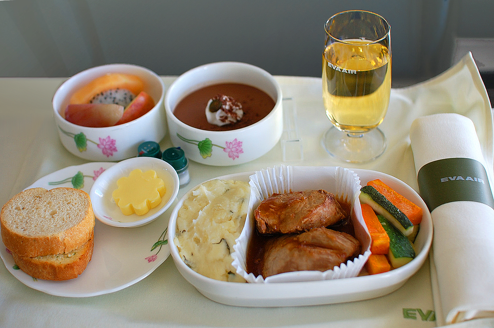 EVA Air dinner